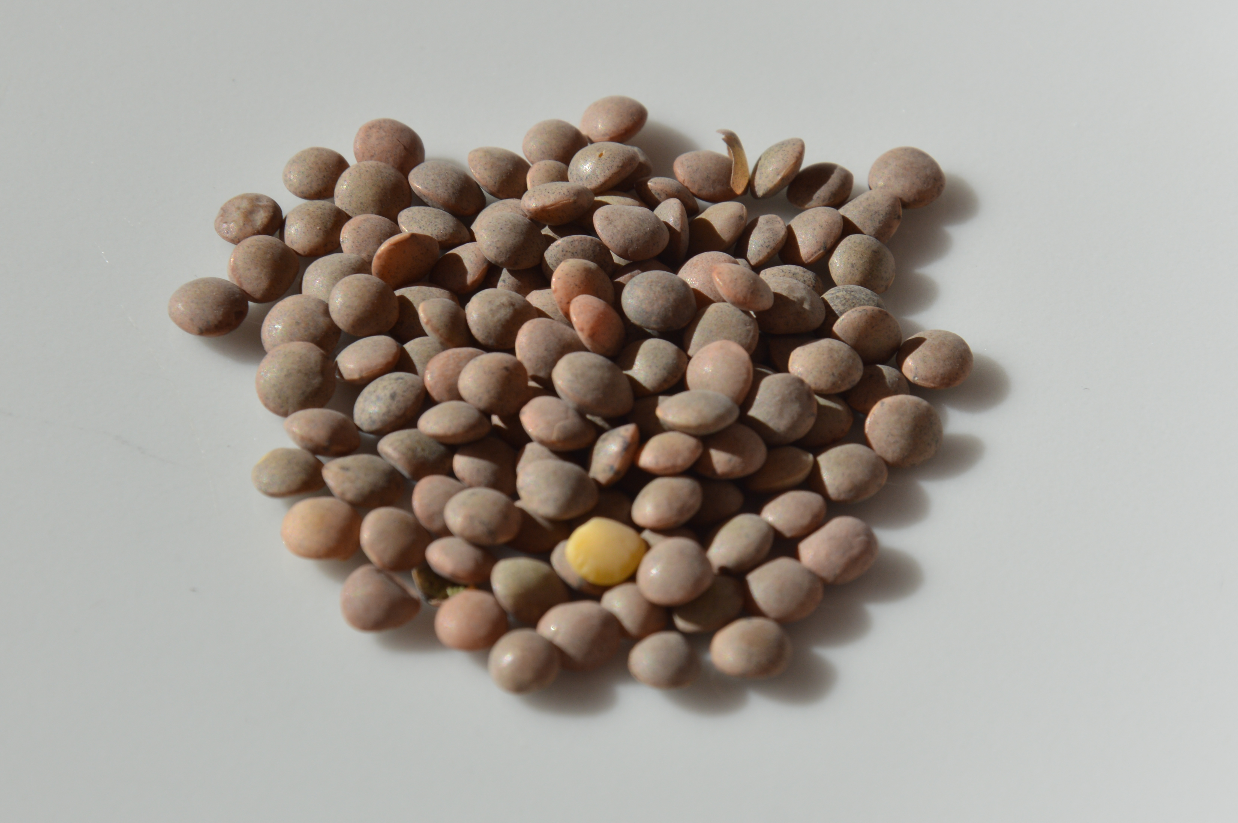 Pardina lentils